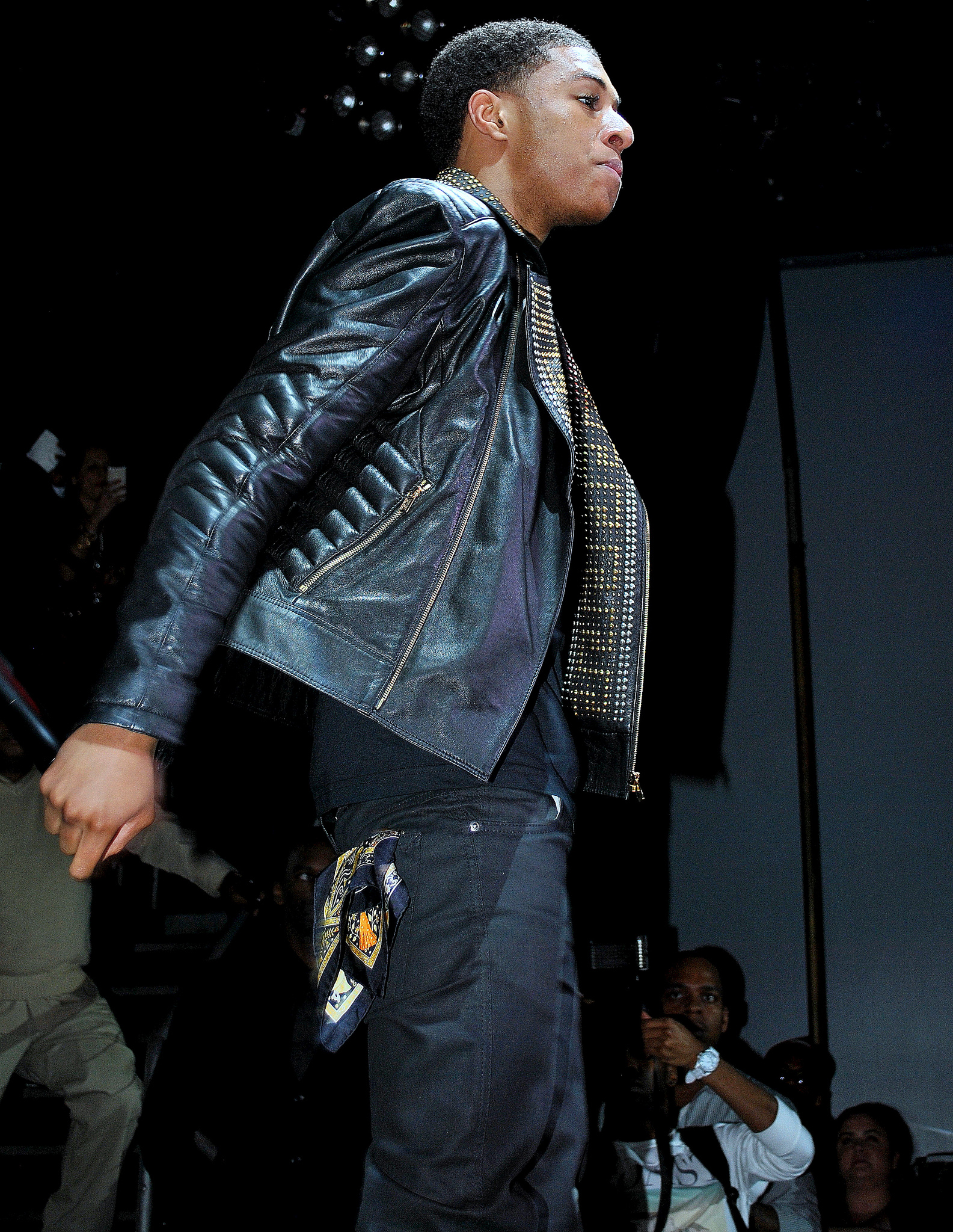 Diggy Simmons at VUMEE Launch 2012